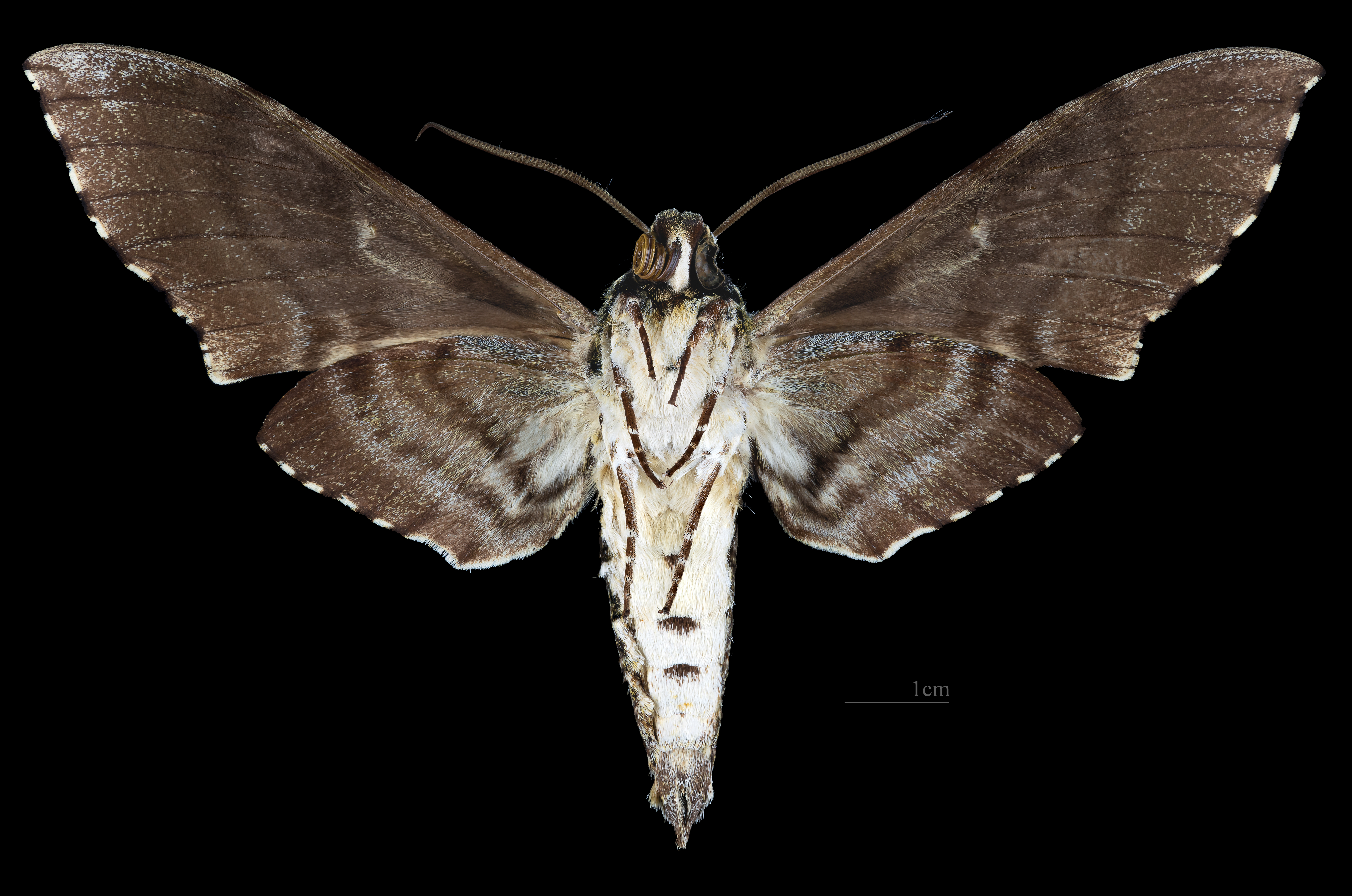 Manduca lichenea - △ Ventral side Collection of the Mathematician Laurent Schwartz